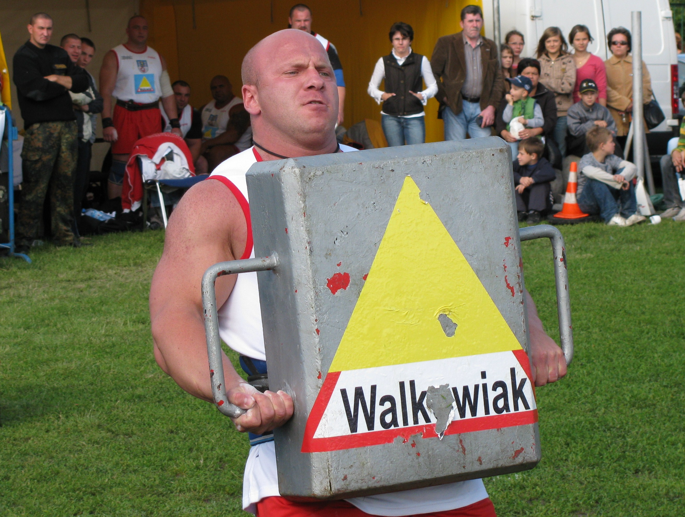 Robert Szczepanski - a strength athlete from Poland